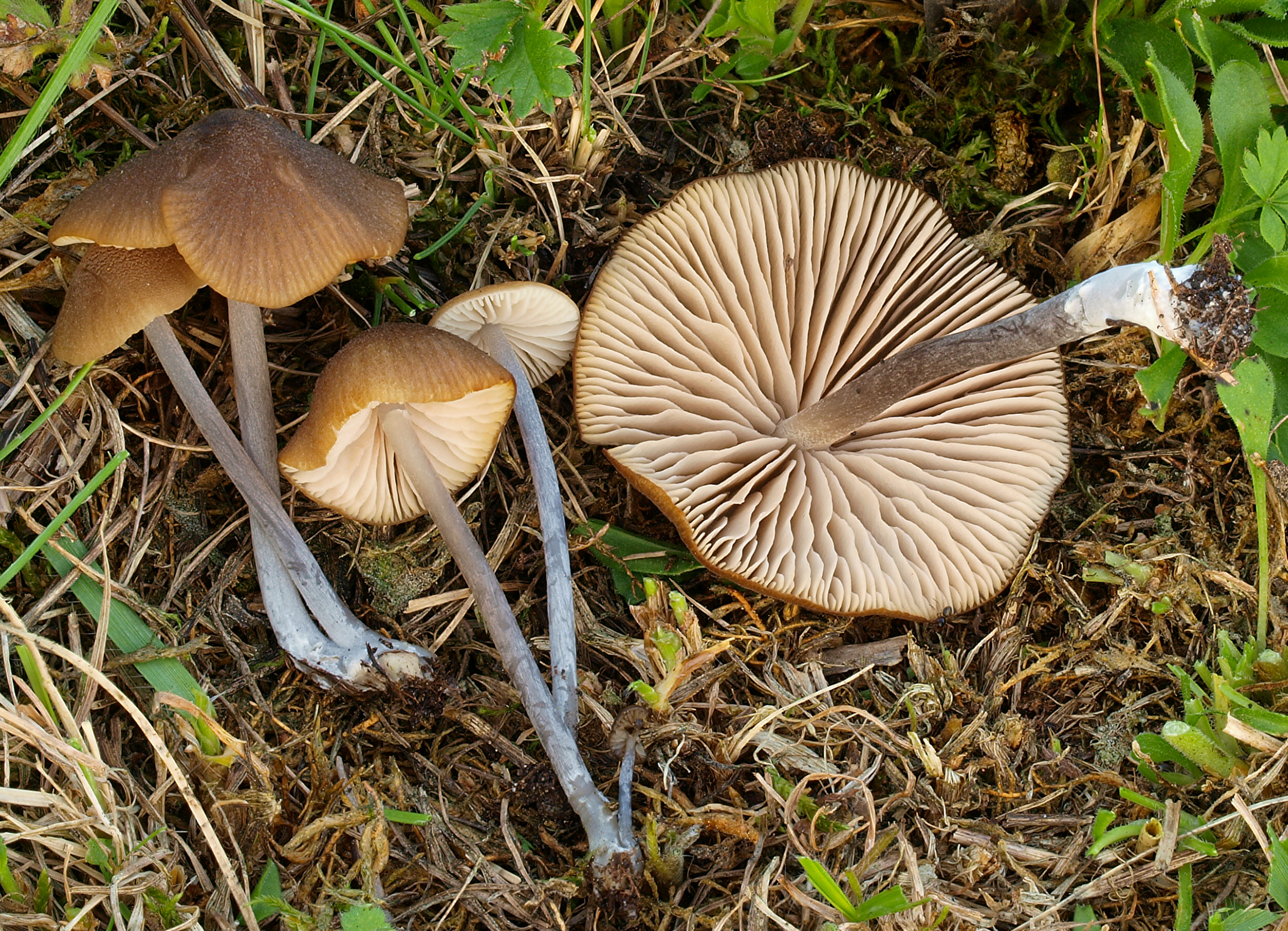 Entoloma sodale